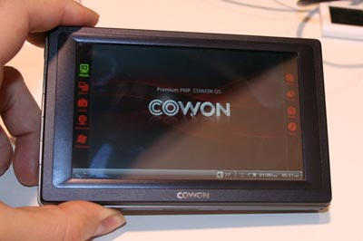 Cowon Q5